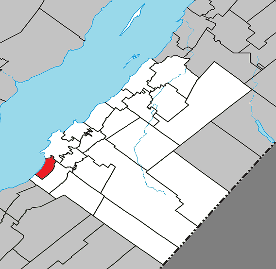 Location of La Pocatière, Quebec within Kamouraska Regional County Municipality.